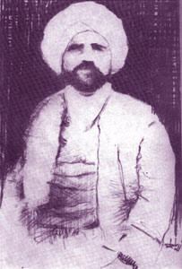 Muhamed Bayram V